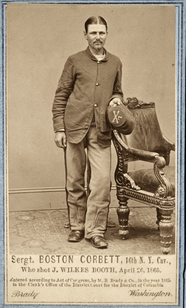 Accession Number: 1972:0033:0003 Maker: Mathew B. Brady Title: Sergent Boston Corbett, 16th N.Y. Cav. Who shot J. Wilkes Booth, April 26, 1865. Date: 1865 Medium: albumen print carte-de-visite Dimensions: 8.1 x 5.4 cm. George Eastman House Collection General information about the George Eastman House Photography Collection is available at [1]. For information on obtaining reproductions go to